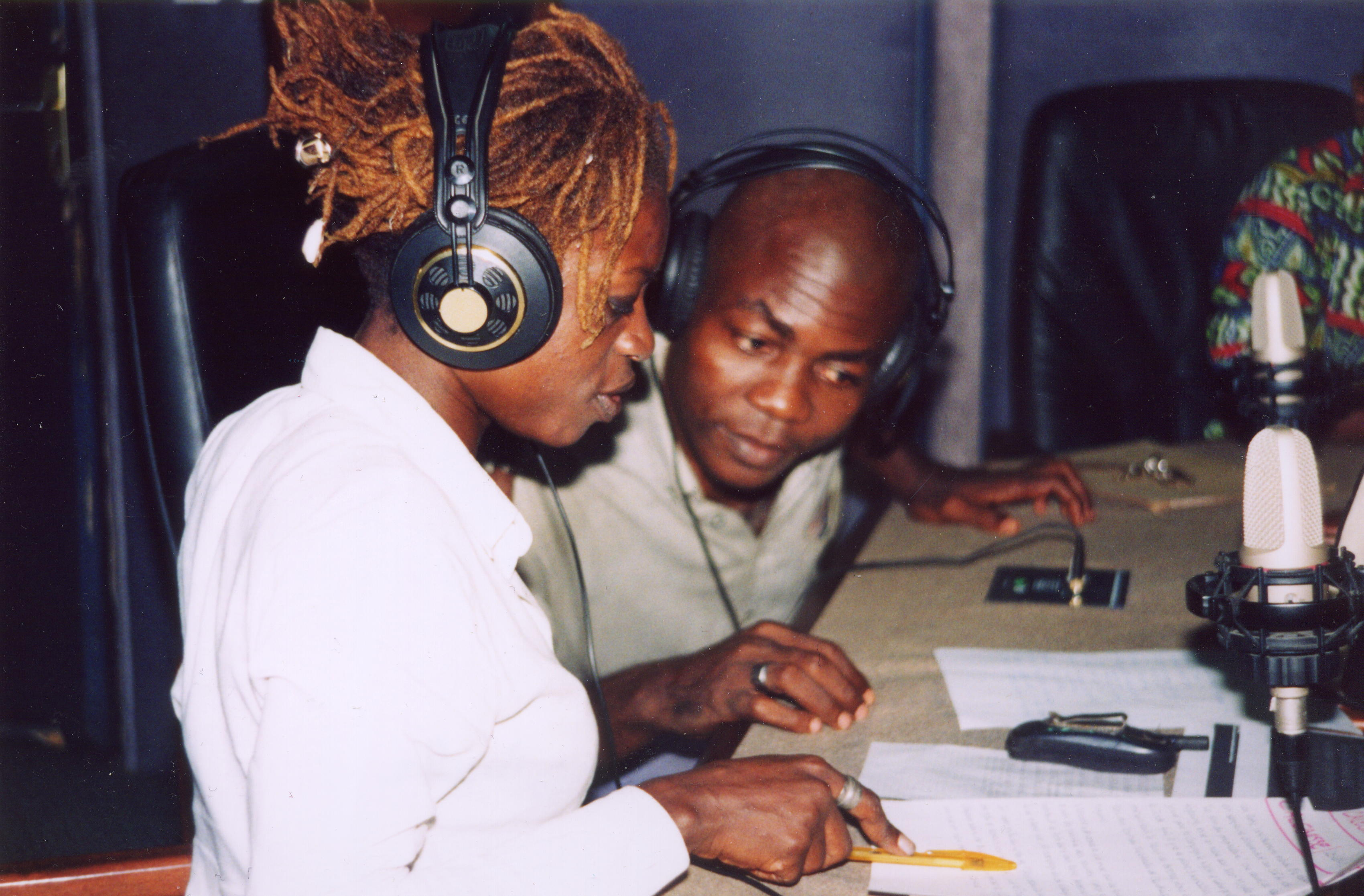 Radio CRTV, Douala, November 2003. In the photo the journalists Aretha Louise Mbango and Thèodore Kayese. Photo by Iolanda Pensa.